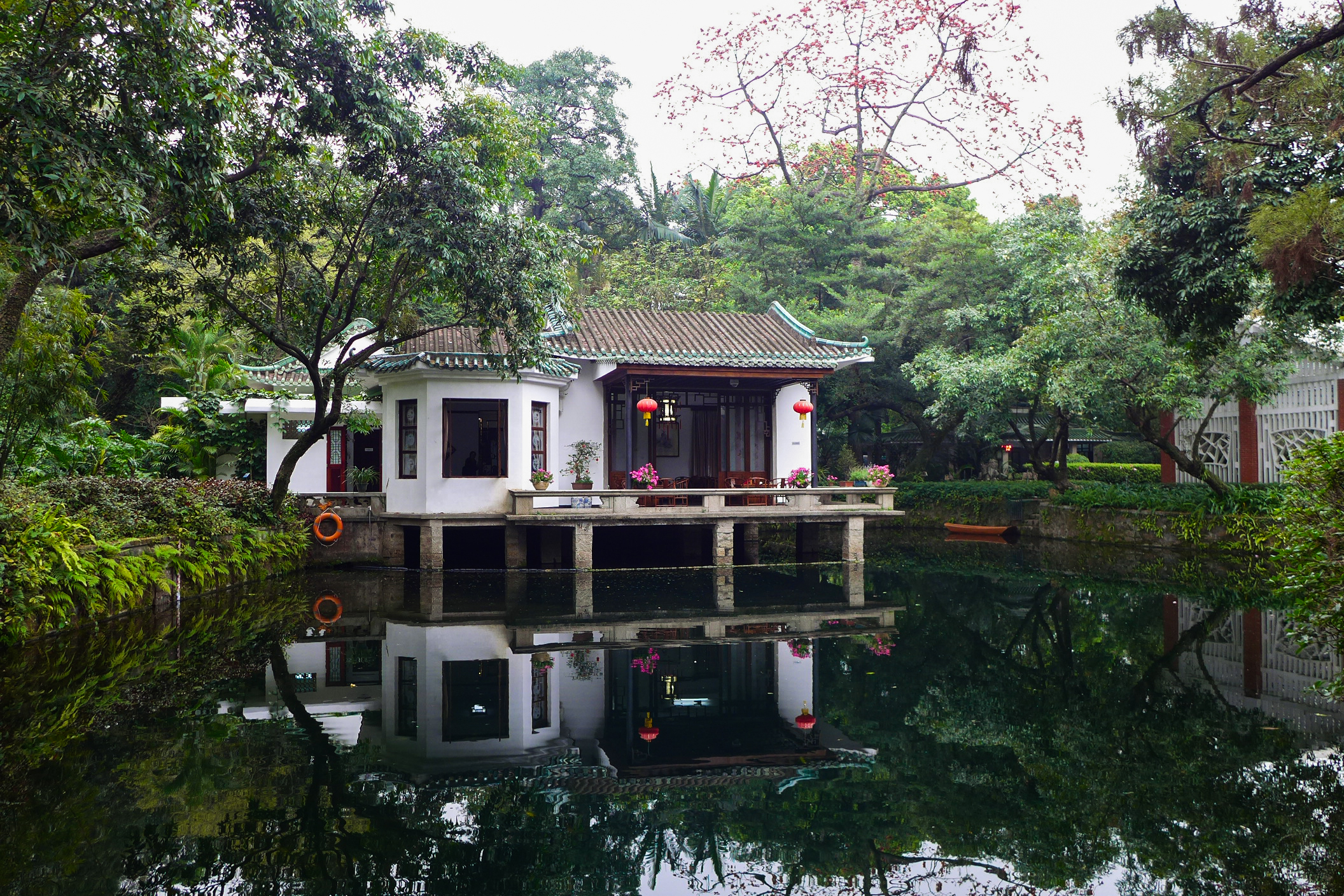 Canton Orchid Garden